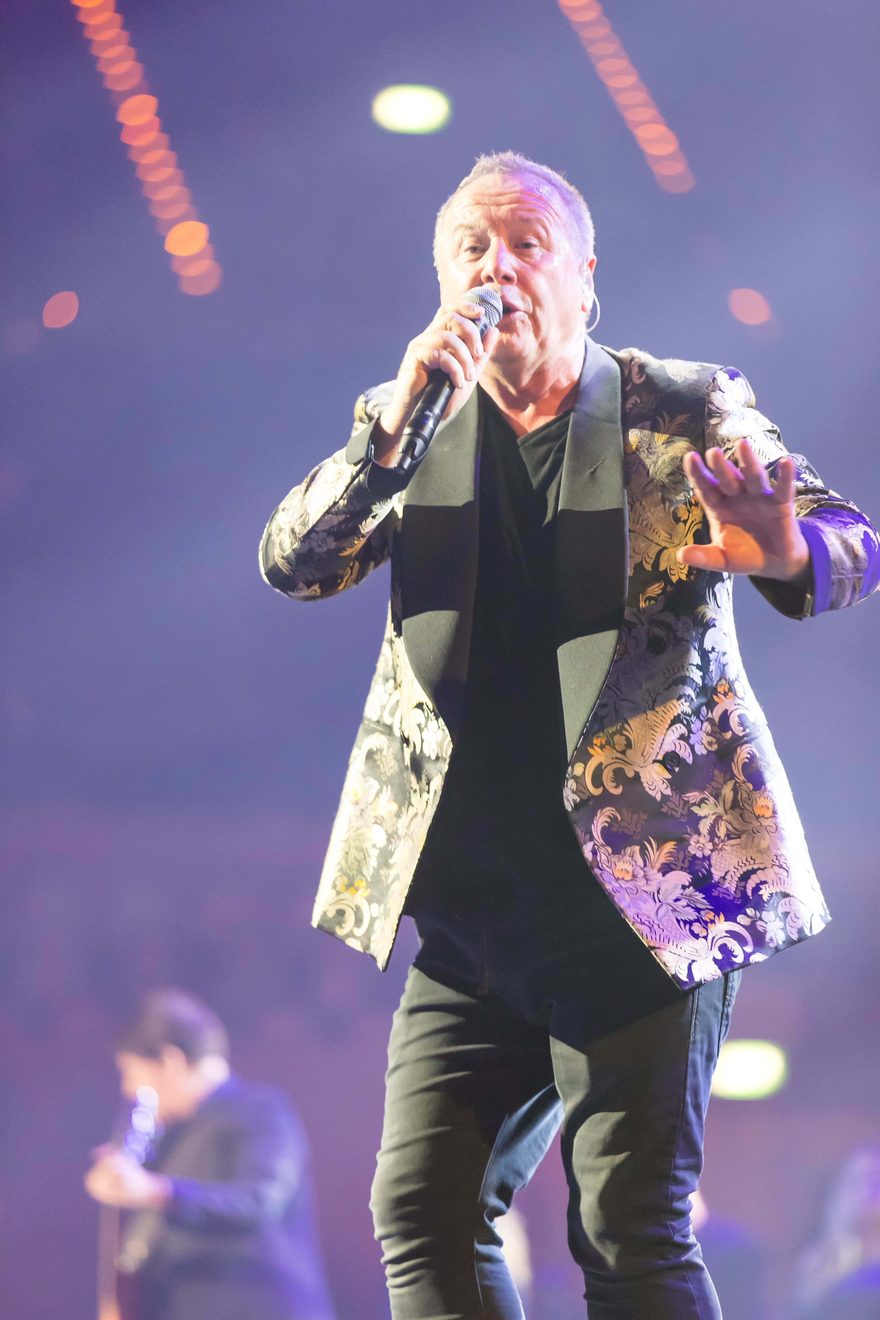 Simple Minds during Night of the Proms at SAP Arena, Mannheim, Baden Württemberg, Germany on 2016-11-25, Photo: Sven Mandel Simple Minds, Natasha Bedingfield, Stefanie Heinzmann, John Miles, Ronan Keating, Time For Three